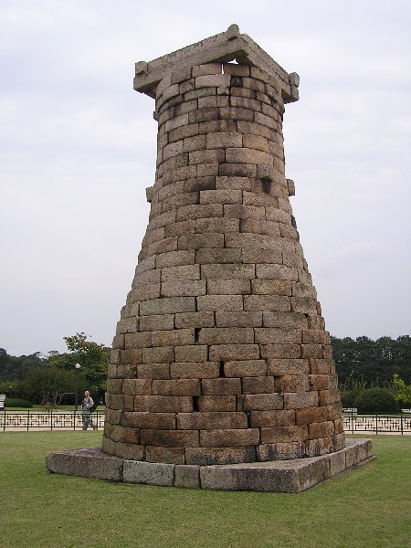 Far East's oldest astrological observatory constructed between 632 - 646, Cheomseongdae in Wolseong Park, Gyeongju, South Korea